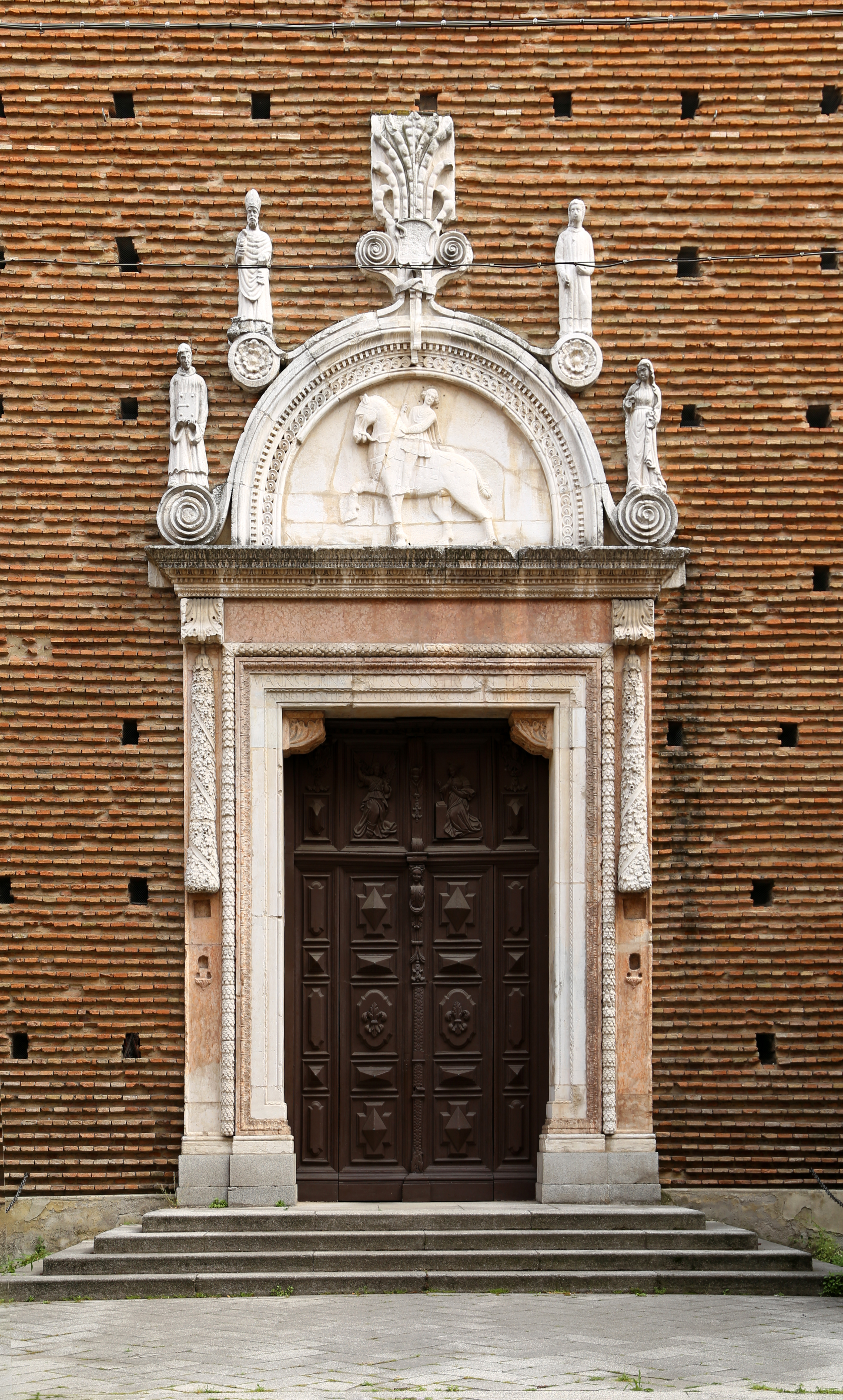 Madonna del Carmine (Forlì)